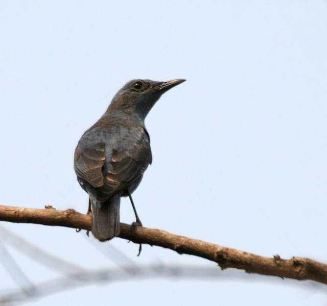 Blue Rock Thrush Monticola solitarius at Jayanti in Buxa Tiger Reserve in Jalpaiguri district of West Bengal, India.